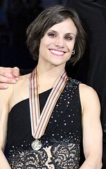 Meagan Duhamel at the 2015 World Figure Skating Championships.